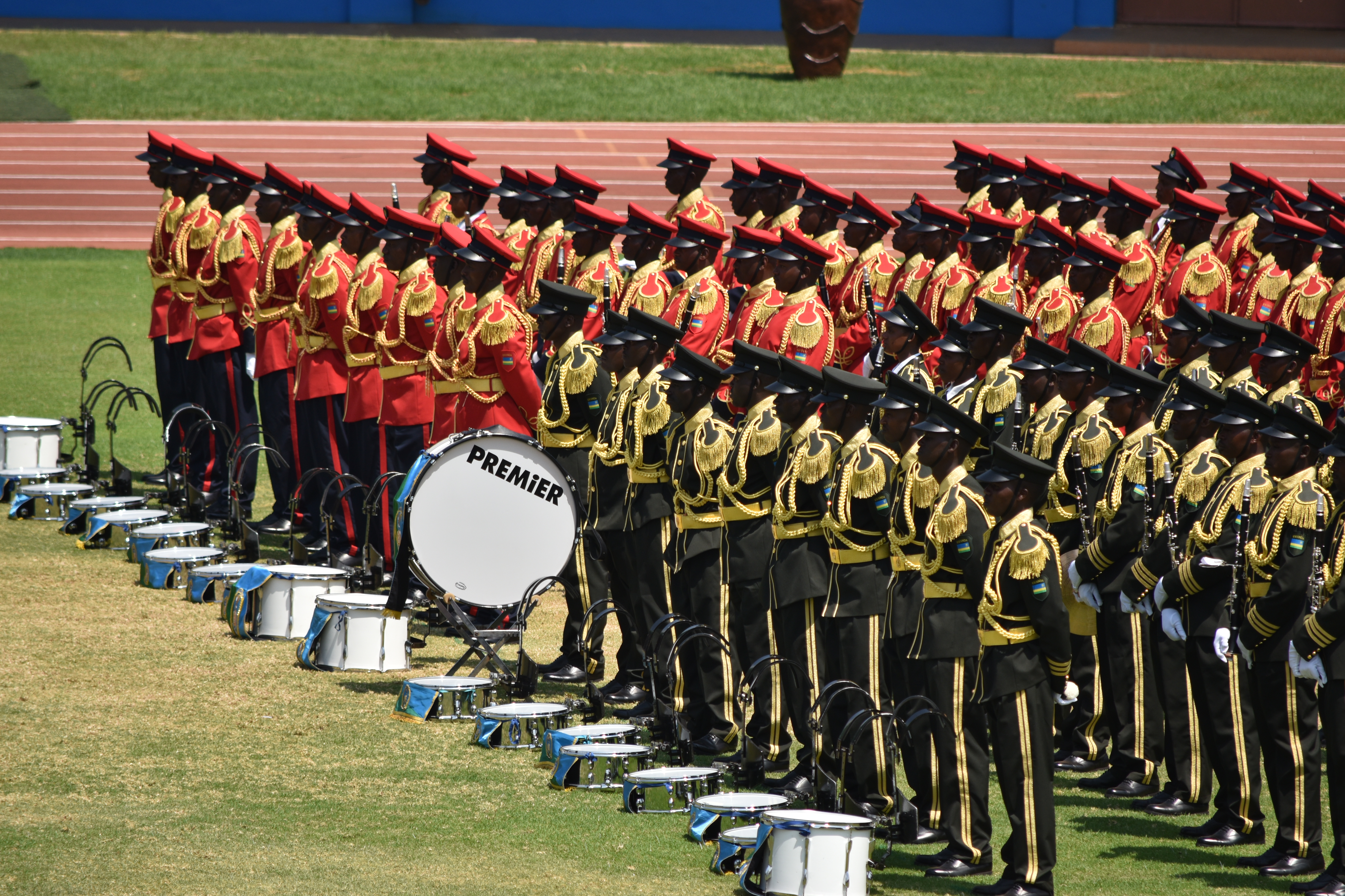 This is an image of "African people at work" from Rwanda